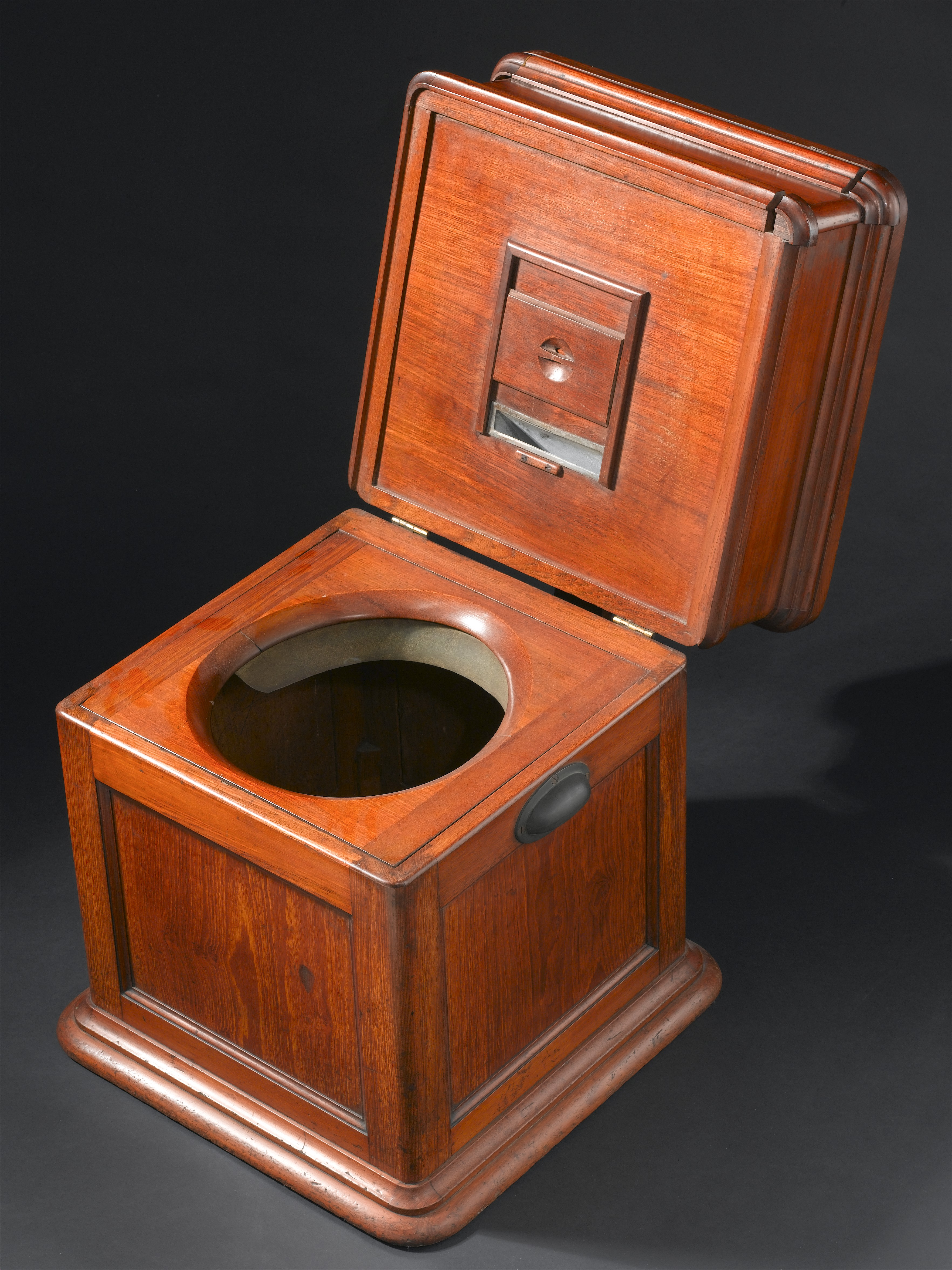 With the lid shut, this object looks like a piece of ordinary household furniture. In fact it is a discreetly disguised toilet called a commode. The lid reveals a seat, underneath which a chamber pot would have been placed and emptied after use. It is unclear what the metal container in the lid is for. Most likely it was a container for toilet paper or perhaps a ‘sliding’ – an antiseptic powder box. The commode would have been owned by a wealthy family for use by an elderly or sick relative, or it may have been used in a hospital. maker: Unknown maker Place made: Europe Wellcome Images Keywords: chamber pot; antiseptic; cabinet chair